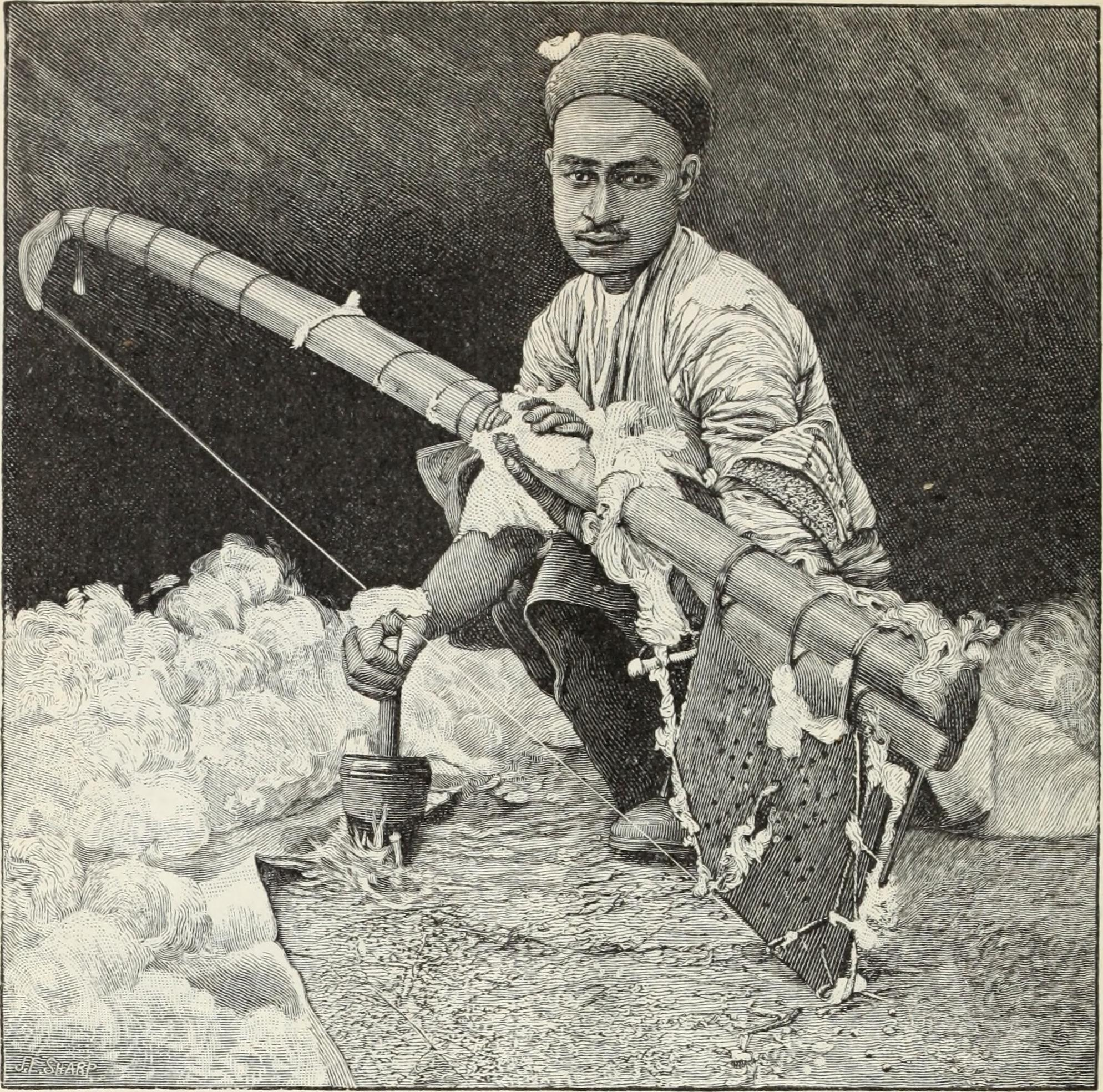 Title: Harper's New Monthly Magazine Volume 34 December 1886 to May 1887 Year: 1887 (1880s) Authors: various Subjects: Publisher: New York: Harper & Brothers Publishers Text Appearing Before Image: EXTERIOR OF COUNTRY CARAVANSARY. 222 HARPERS NEW MONTHLY MAGAZINE. Text Appearing After Image: COTTON BEATER. cliaracter. But the Persians are notsingular in this respect at the present day.After another smoke, the Persian gentle-man sallies forth toward the cool of theevening with a rosary in his hand, at-tended by a servant or companion. It is the hour of peace; a rosy lightbathes the house-tops, but the stately av-enues leading north and south are in shad-ow, and cooled by the water thrown by thesakkahs. The tender evening light alsorests on the snowy crests of the vast ridgeof the Shim Iran, or Light of Persia, whichsoa7\s to a height of 13,000 feet across thenorthern side of the plain, but nine milesaway. The evening glow, before it fadesinto twiliglit, lingers last on the snowycone of Demavend, 21,000 feet high, everpresent in every view, like the presidinggenius that protects the capital of Persia. With slow and dignified steps the Per-sian gentlemen stroll through these invit-ing avenues, engaged in genial converse.Their long i^obes,their massive beards, theirlofty caps